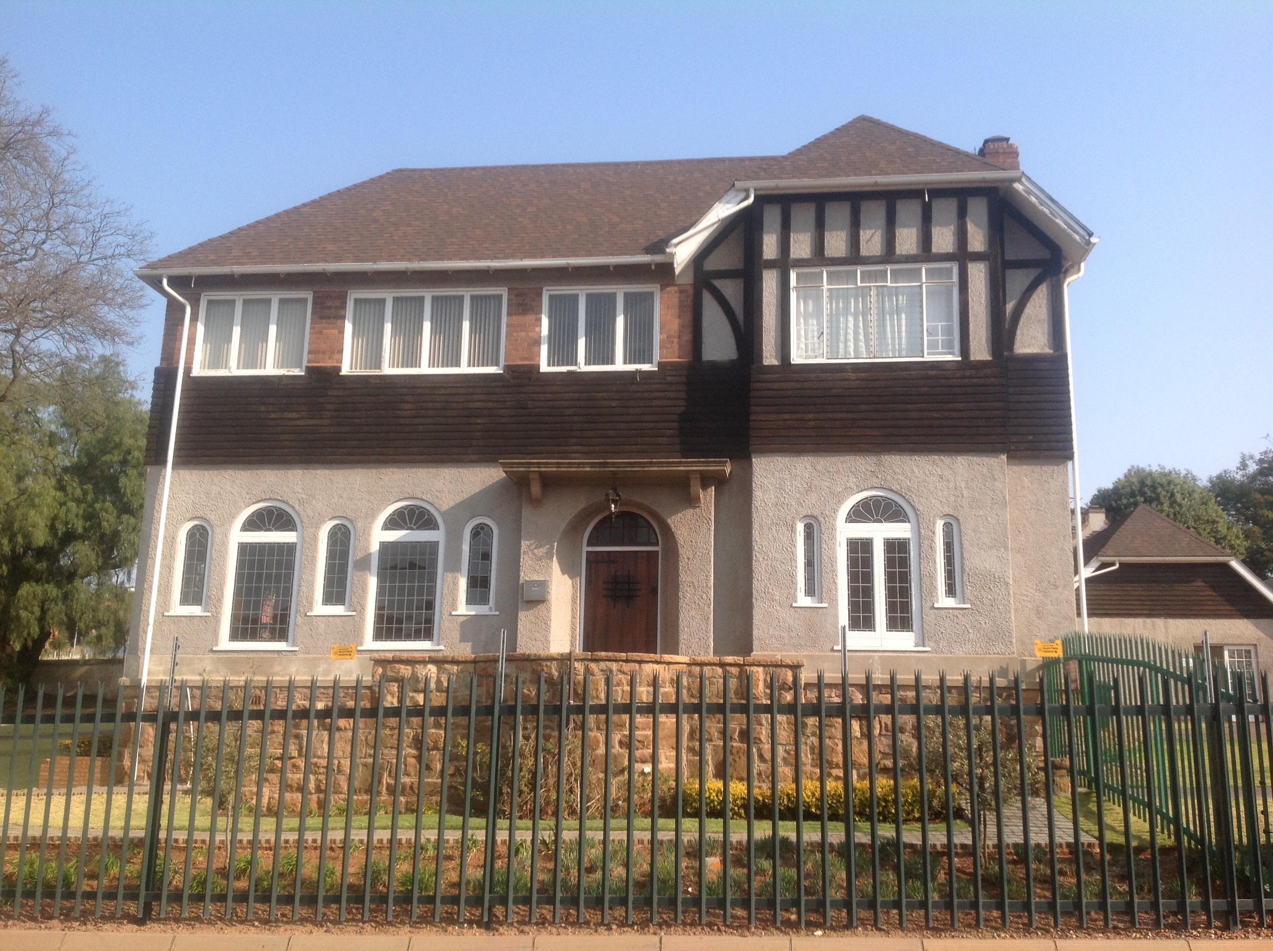 Front view of The Wilds House This media shows a South African Protected Site with SAHRA file reference 9/2/228/0179.